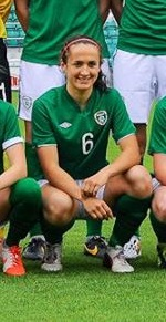 Dora Gorman in pre-match photo for Republic of Ireland vs. Croatia in World Cup Qualifier in June 2014.